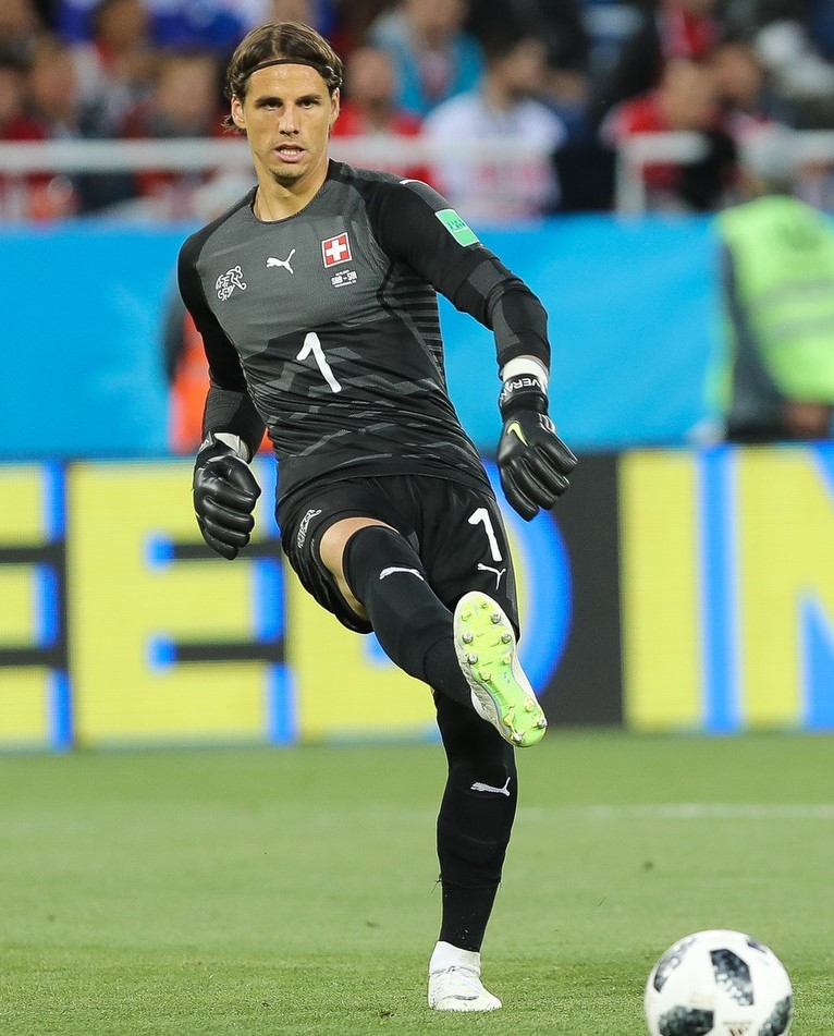 Yann Sommer